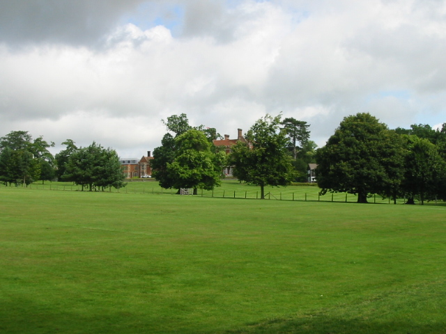 The main building at Benenden School behind the trees